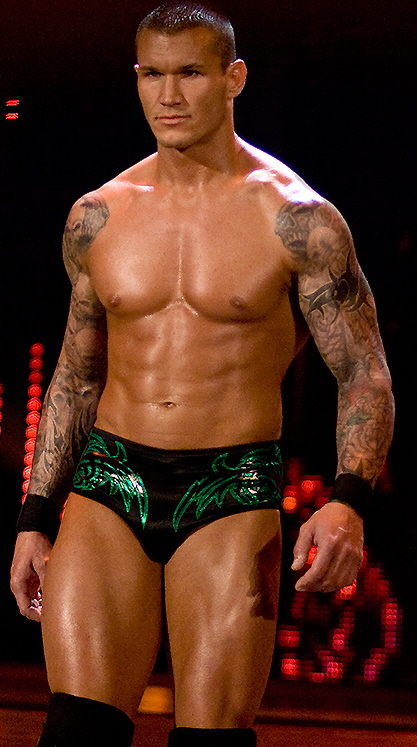 Randy Orton at a live event on Monday Night Raw in Tampa, Florida 2008.